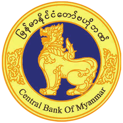 Central Bank of Myanmar sealမြန်မာဘာသာ: မြန်မာနိုင်ငံတော်ဗဟိုဘဏ် တံဆိပ်